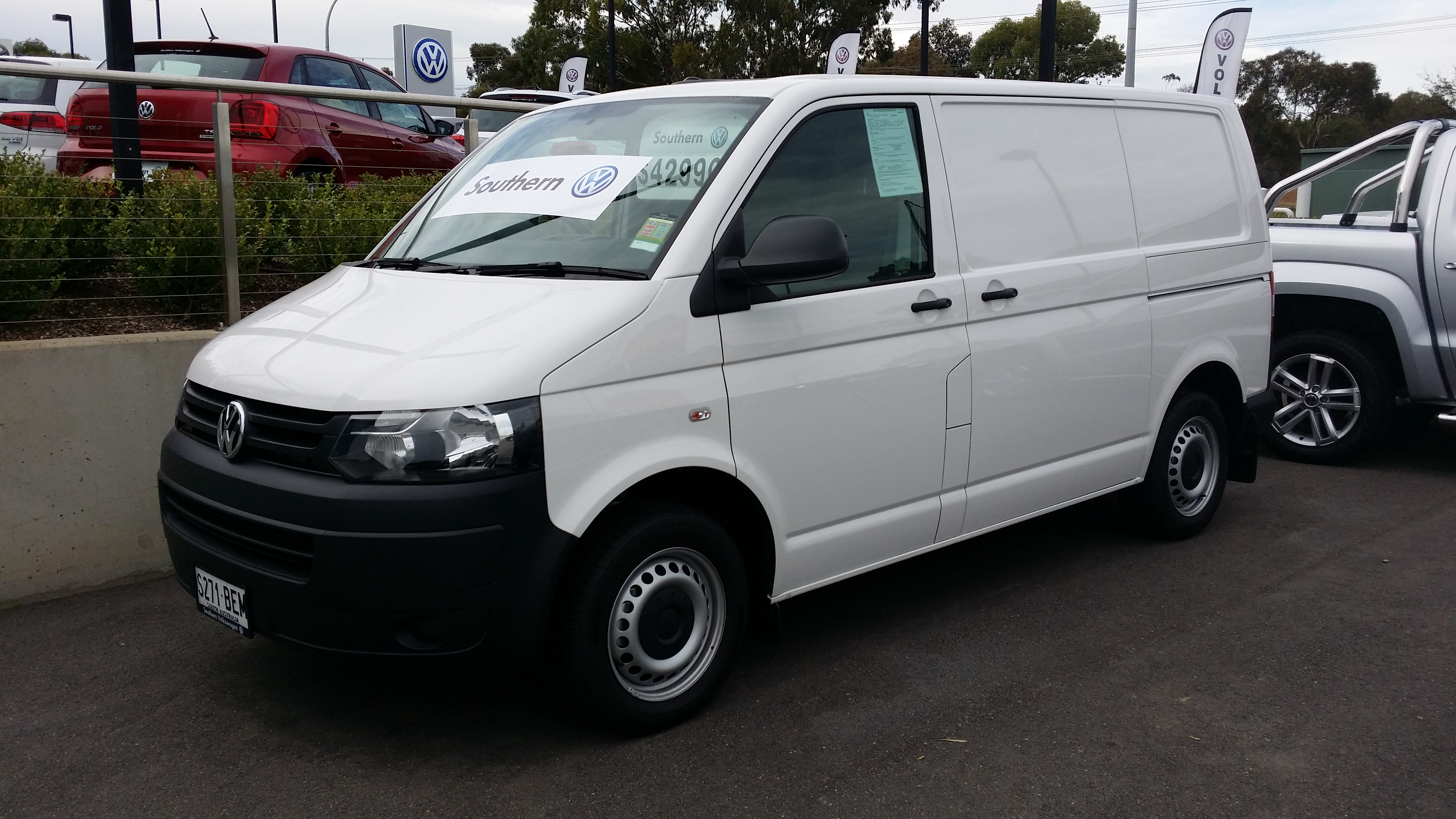 Details as per dealership website for this vehicle (S271BEM).